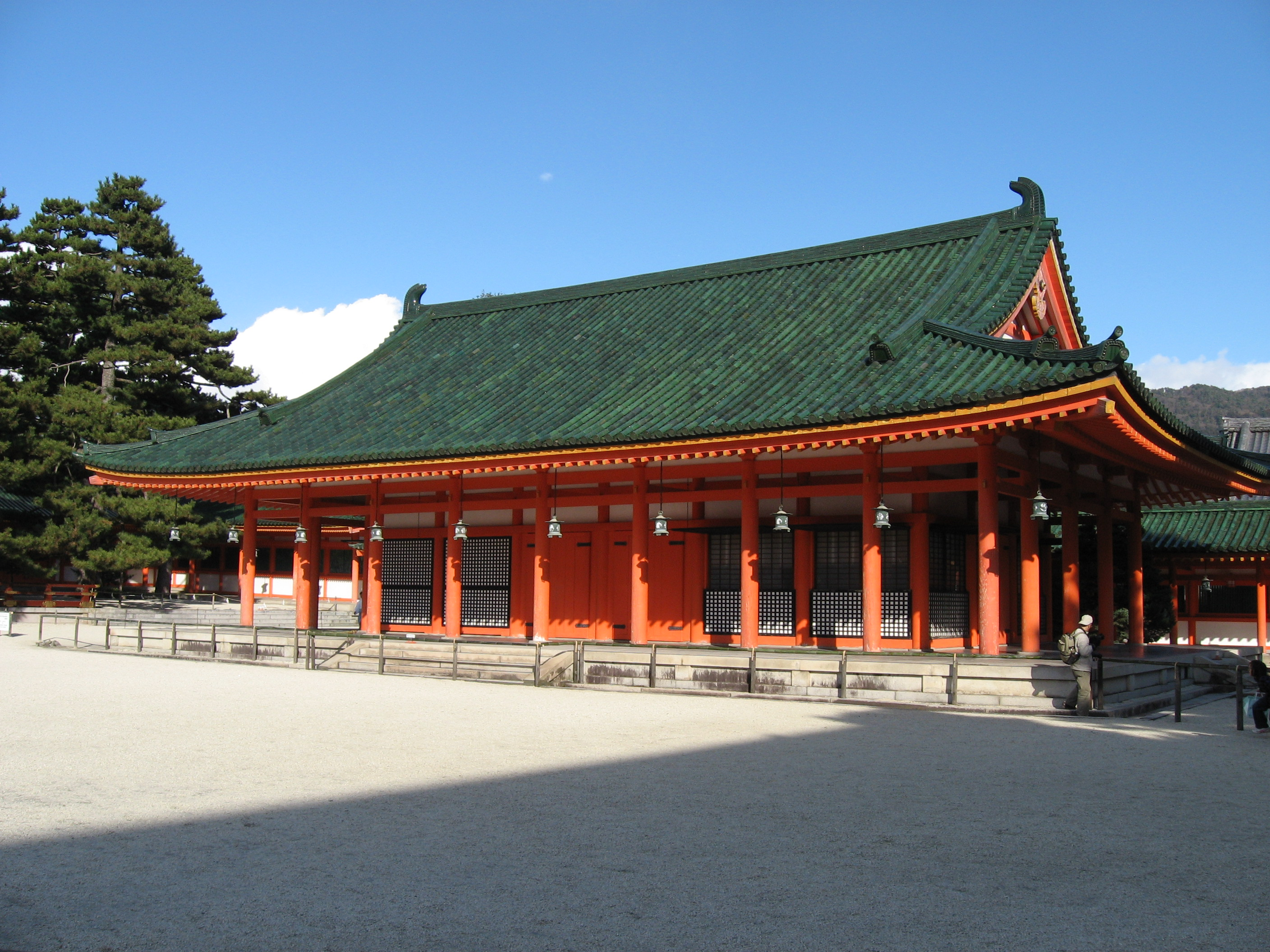 Kaguraden of Heian Jingu shurine